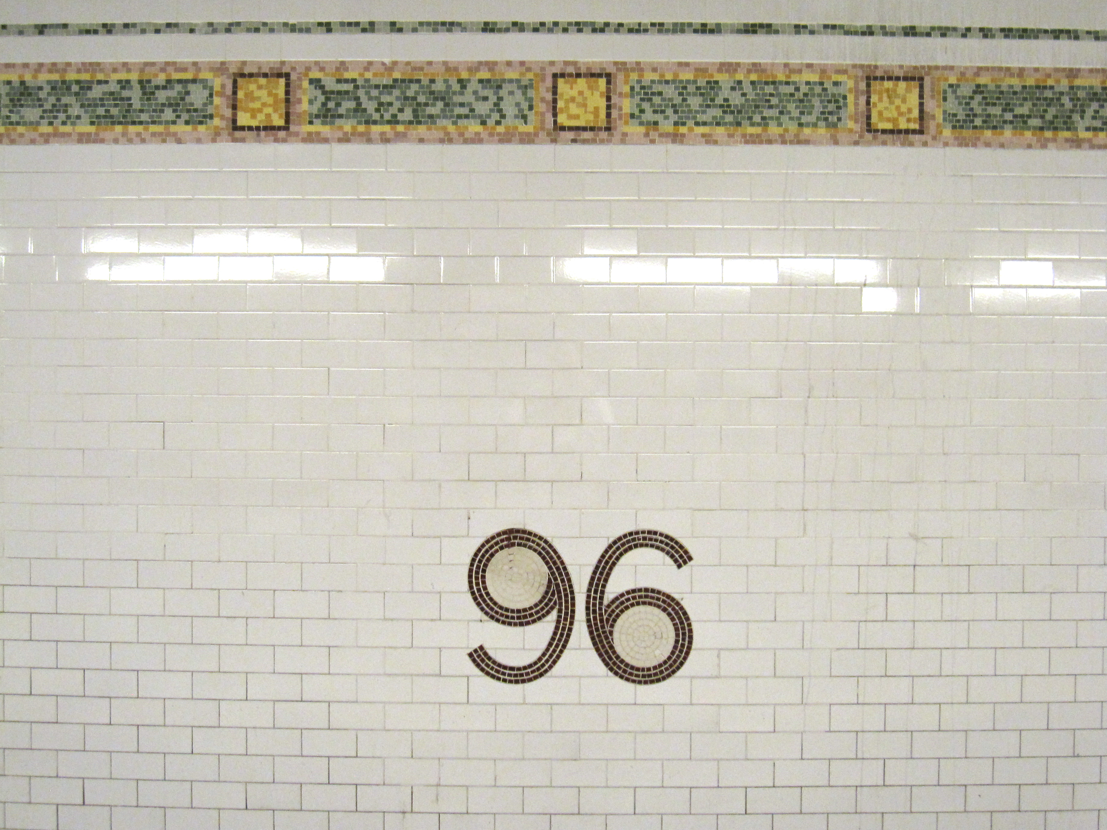 96th Street (IRT Broadway – Seventh Avenue Line)